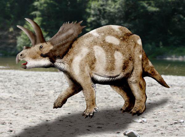 Coahuilaceratops